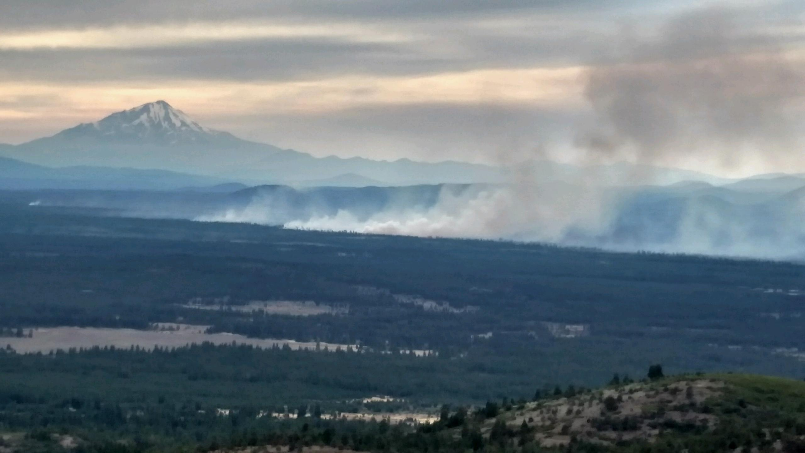 Frog Fire with Mount Shasta in the background taken in the afternoon of August 4, 2015.